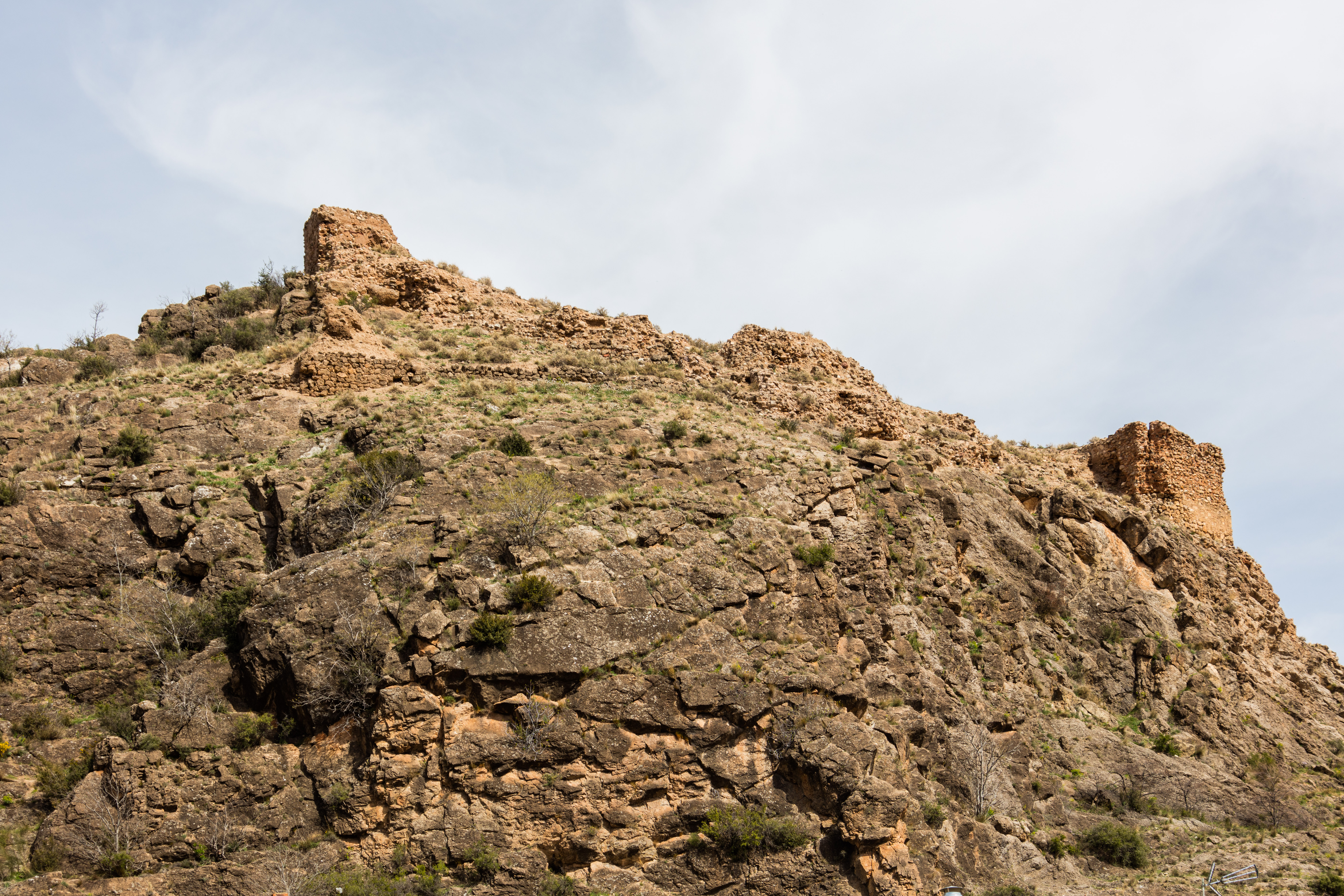 Castle of Morés, Zaragoza, Spain